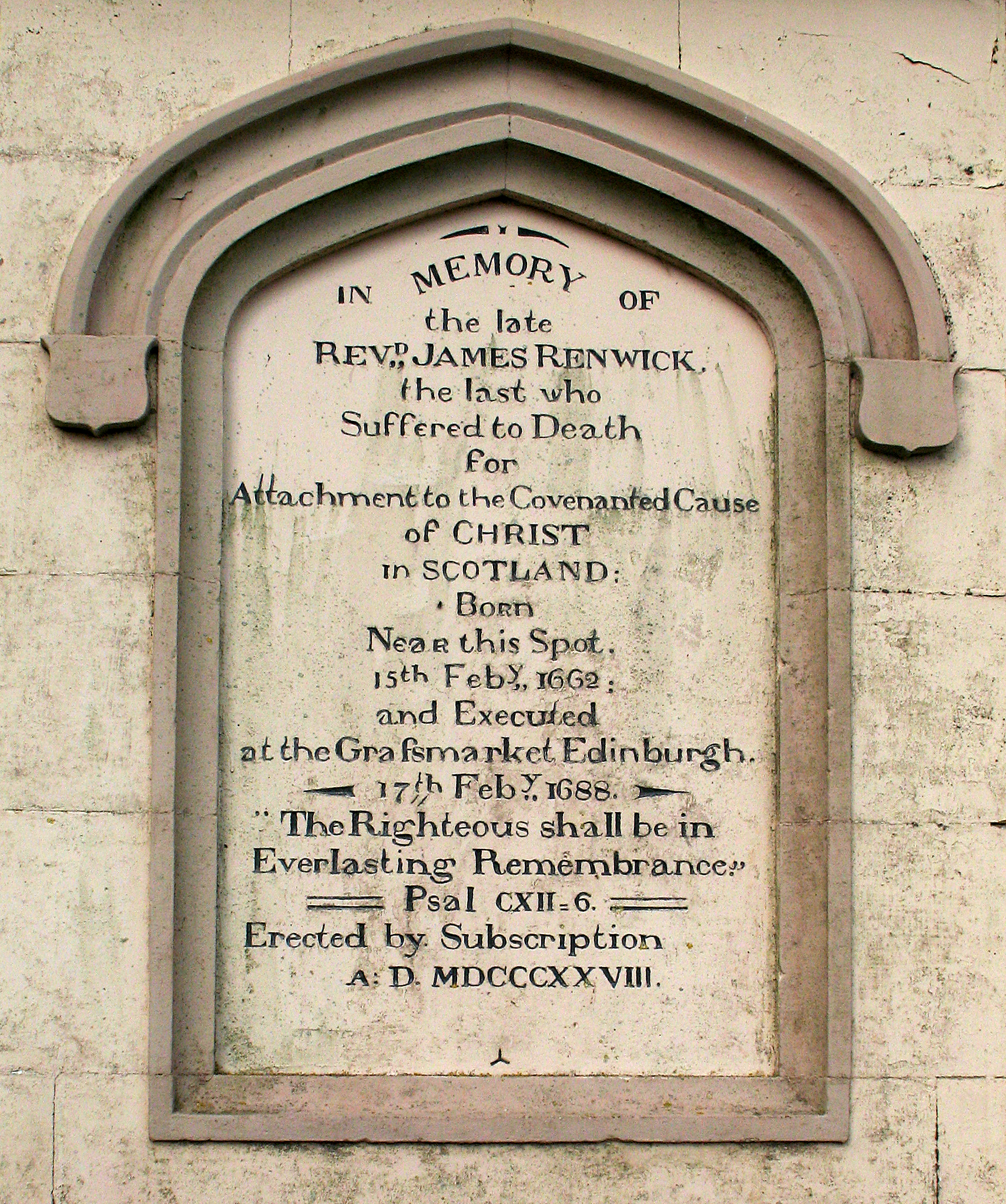 Image of the inscription on the Covenanter Monument in Moniaive to the Reverend James Renwick "born near this spot 15th February 1662 and executed at the Grassmearket Edinburgh 17th February 1688". Carsphairn and Scaur Hills in the Southern Uplands of Scotland. Scothill 24-10-2010